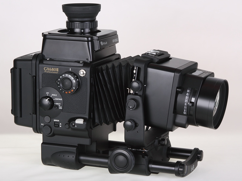 Fuji GX680III Professional Body with Long Belows, 40mm Extension Rails, Magnifier Hood, Roll Film Holder III (landscape position) and EBC Fujinon Lens GX 300mm 1:6.3 (Tilt down, Shift up)